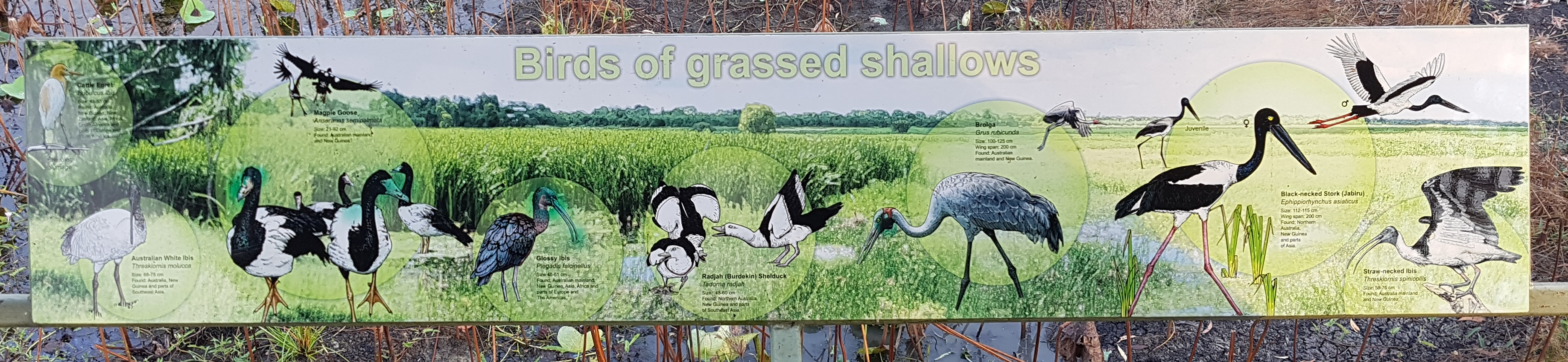 Fogg Dam signs - Birds of the Grassed Shallows